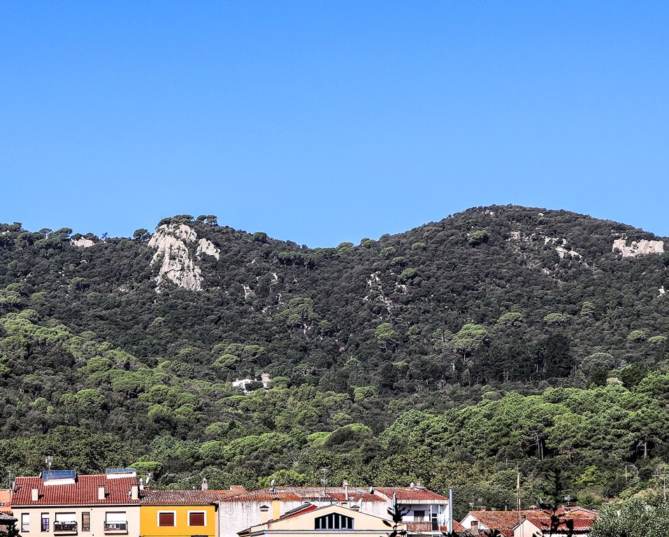 Turó de Céllecs